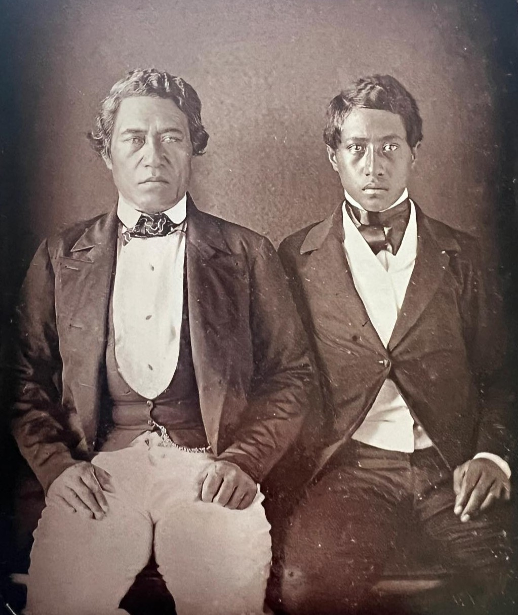 High Chief Charles Kanaina seated with his son William Charles Lunalilo. From a daguerreotype owned by the Bishop Museum.